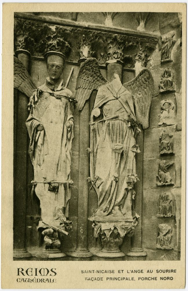 Accession Number: 1969:0314:0004 Maker: Anthony Thouret (French) Title: SAINT-NICAISE ET L'ANGE AU SOURIRE, FA?DE PRINCIPALE, PORCHE NORD Date: ca. 1918 Medium: photomechanical reproduction Dimensions: Image: 12 x 8.2 cm Overall: 13.9 x 9 cm George Eastman House Collection General – information about the George Eastman House Photography Collection is available at For information on obtaining reproductions go to